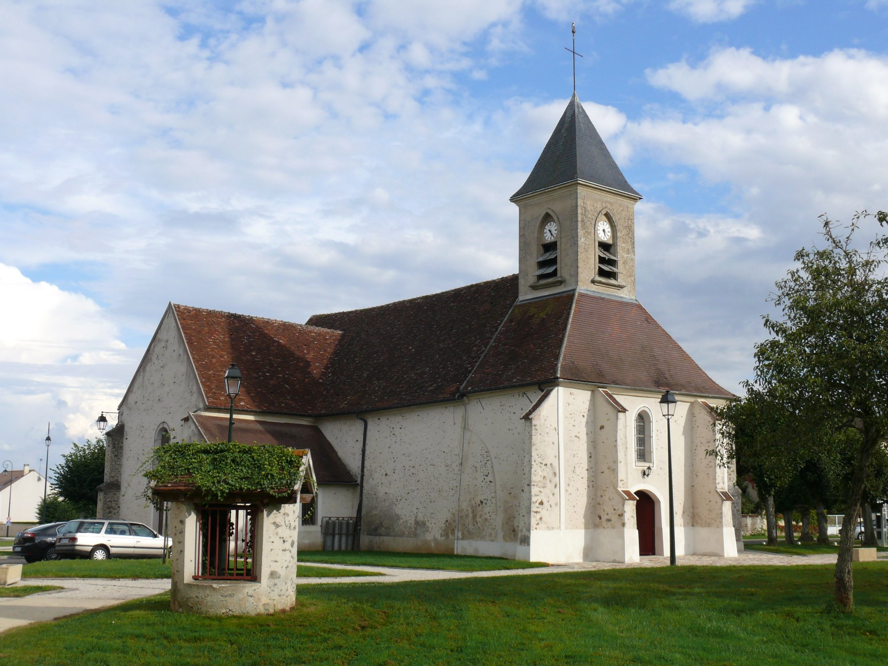 Saint-Claude's church of Pierre-Levée (Seine-et-Marne, Île-de-France, France).